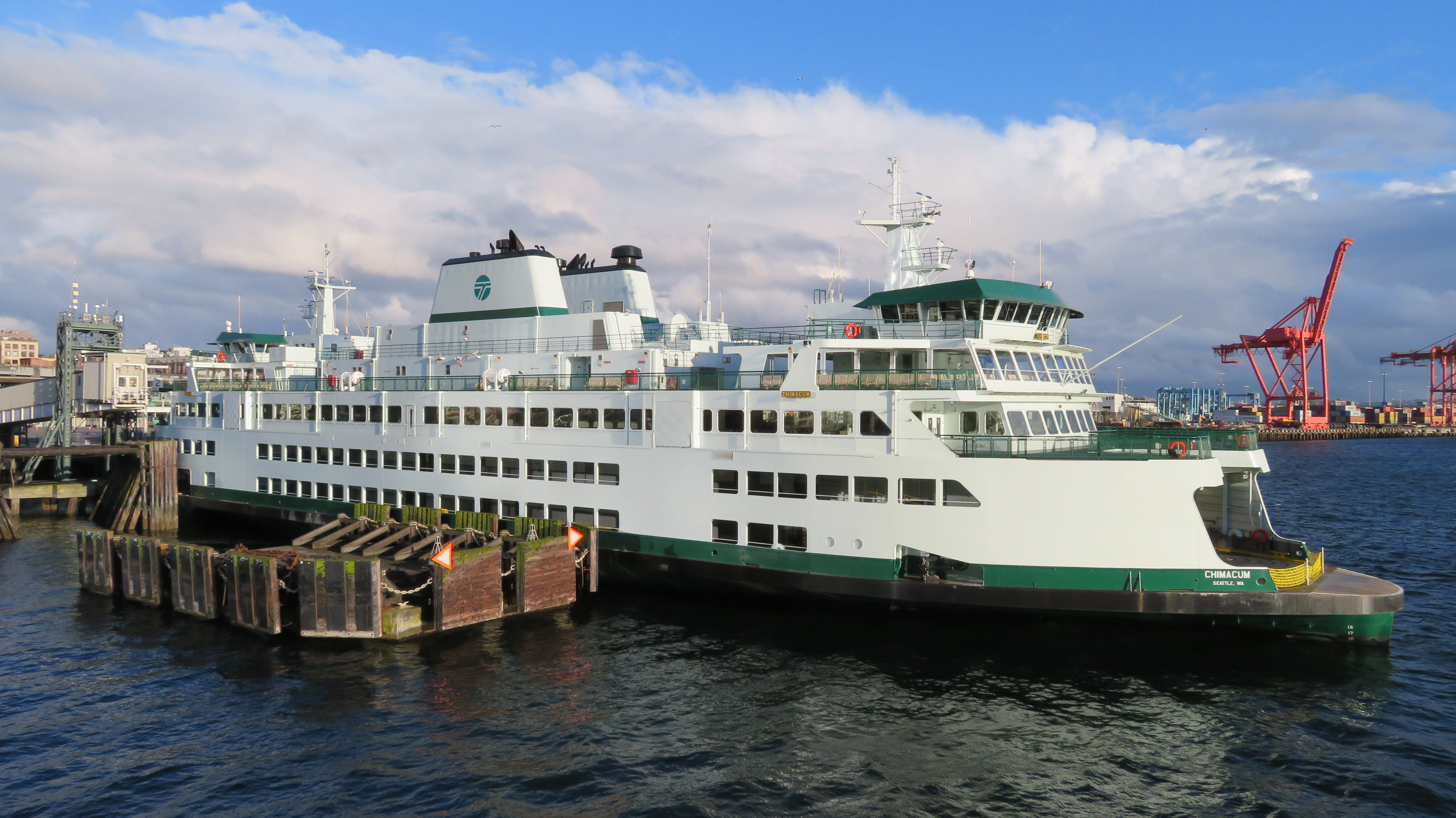 MV Chimacum at the Seattle Ferry Terminal